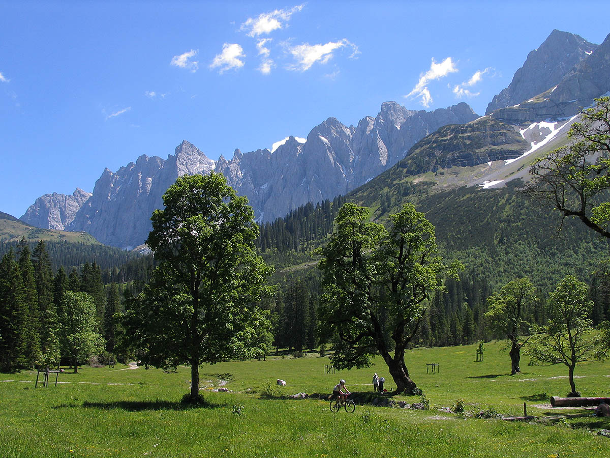 Kleiner Ahornboden, Karwendel, Tirol, Austria. Mountains from right to left: Moserkarspitze 2533m, Kühkarlspitze 2465m, Nördliche Sonnenspitze 2650m. Bockkarspitze 2589m, Langer Sattel to Laliderer Spitze 2588m. Laliderer Wand 2620m and Dreizinkenspitze 2603m. Grubenkarpfeiler, the north ridge of Grubenkarspitze (not visible).